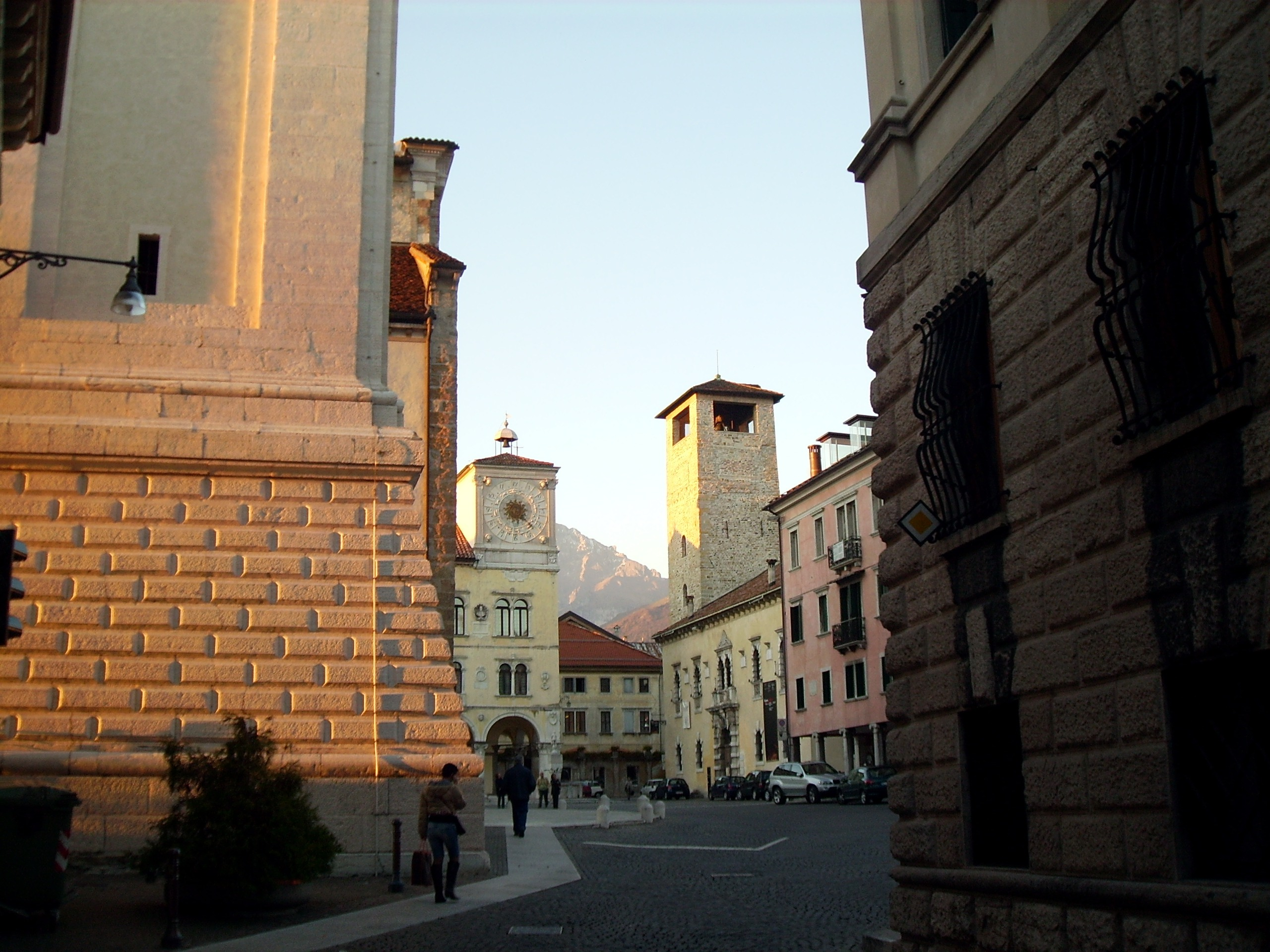 Duomo's (Dom) square,Belluno,Italy